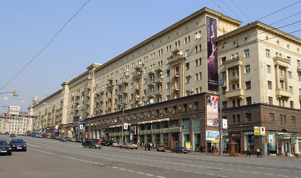 6 Tverskaya Street, Moscow. Architect: Arkady Mordvinov, 1938